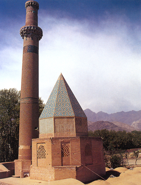 Tomb of Sheikh Abdolsamad, Natanz, Iran. View is from the roof top of the ICHO office, adjacent to the courtyard.